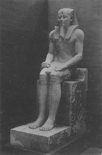 Statue of Senusret I, from his pyramid complex at Lisht, now in the Egyptian Museum, Cairo (CG 413)